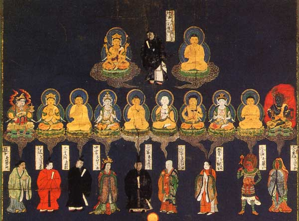 A Detail of a Kasuga Mandala showing some "kami" and their Buddha equivalents (honji suijaku)